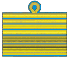 Romanian Air Forces General insignia